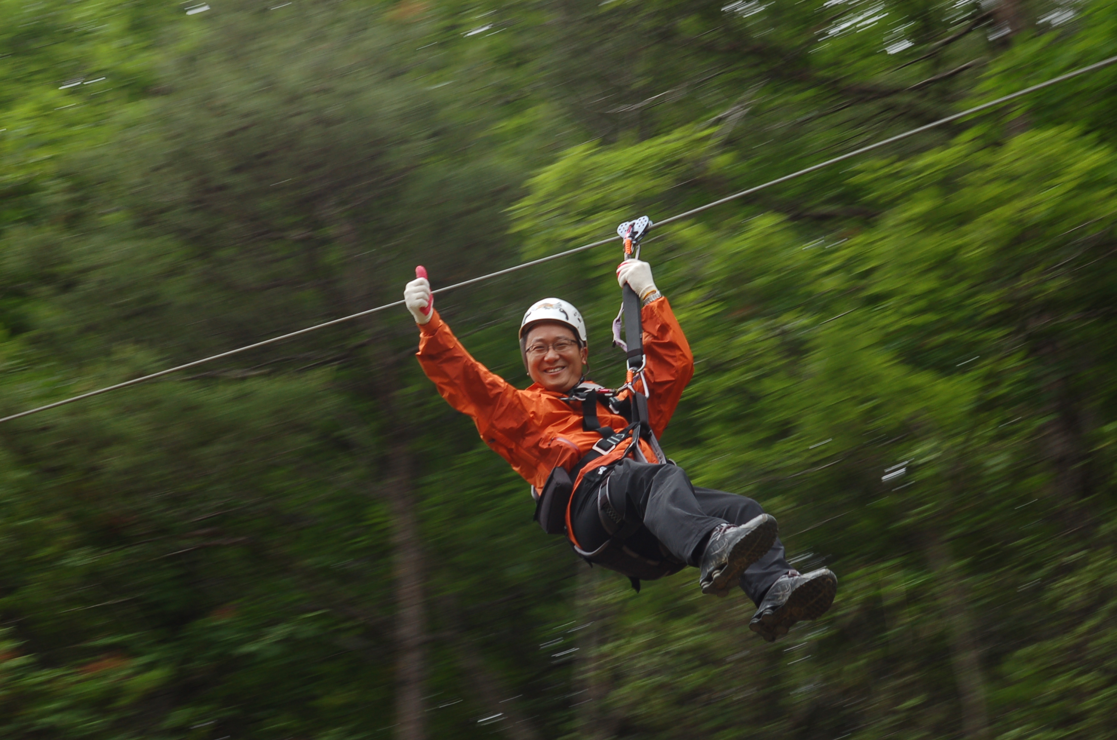 Zipline